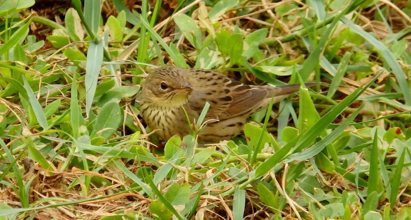 Lanceolated Warbler (Locustella lanceolata)